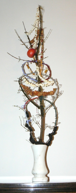 Attempt to recreate a traditional Bulgarian "survaknitsa" ("survachka") - a decorated cornel-tree for New Year